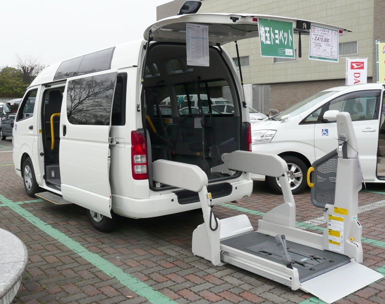 Toyota Hiace Welcab.